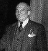 Bert Smyers, founder and first quarterback of the Pitt Panther football team